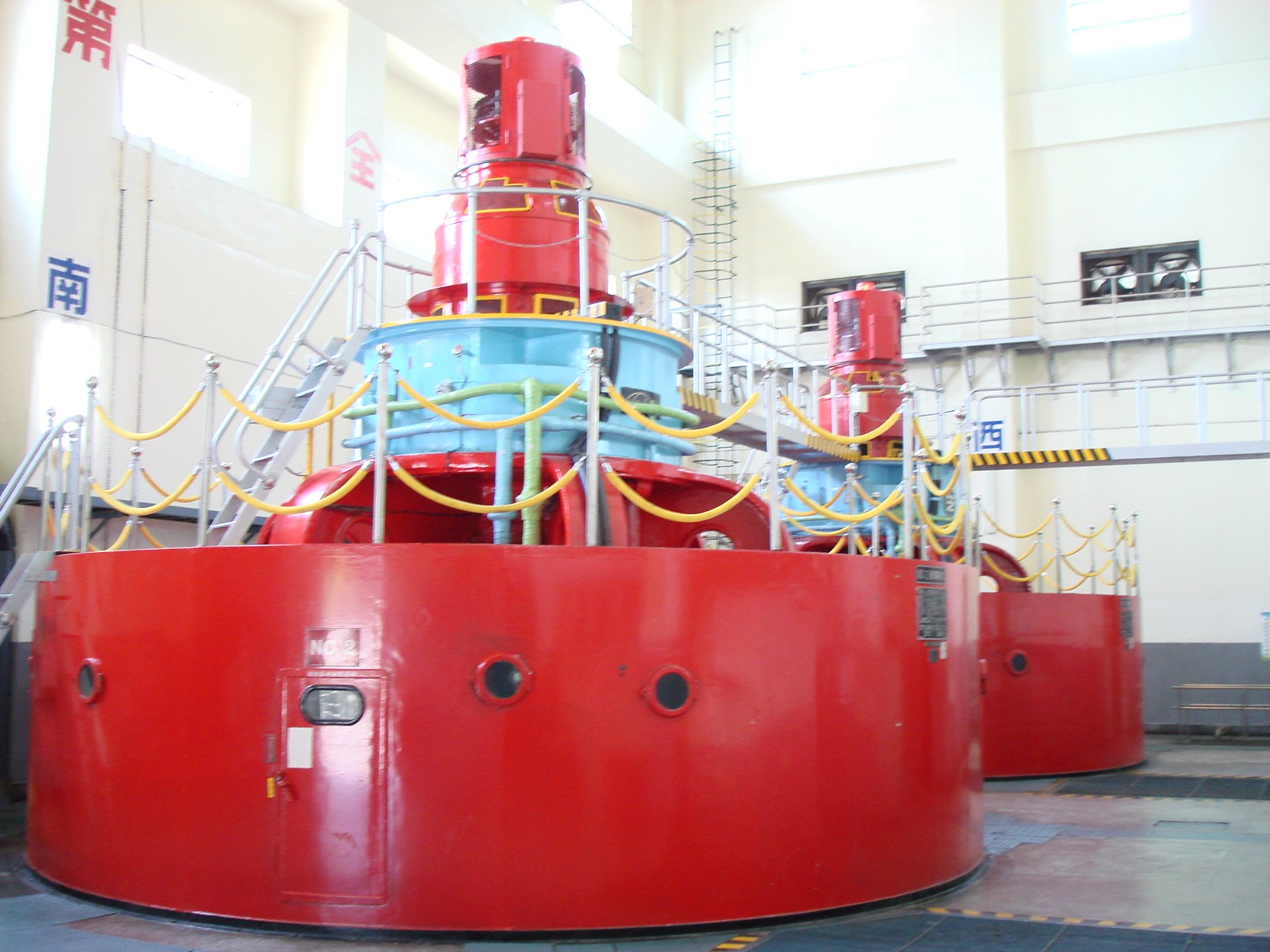 Taiwan power Company The Eastern Power plant Li-Wu Hydroelectricity